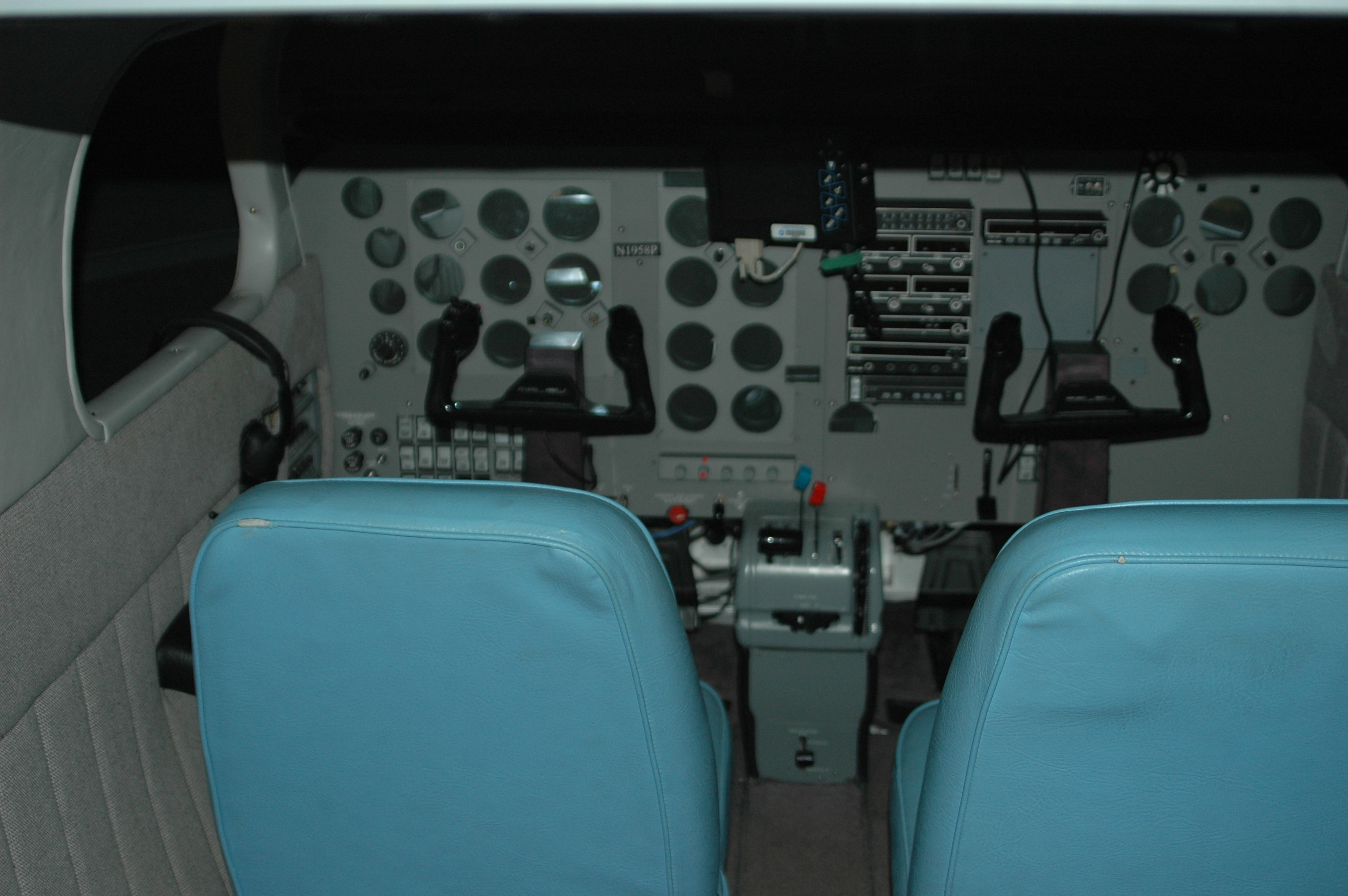 AGARS is a reconfigurable flight simulator specifically designed for human factors research applications.